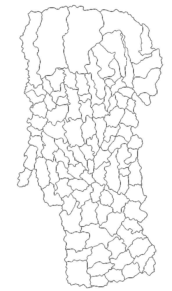 Location map of Argeş County Romania with limits of communes